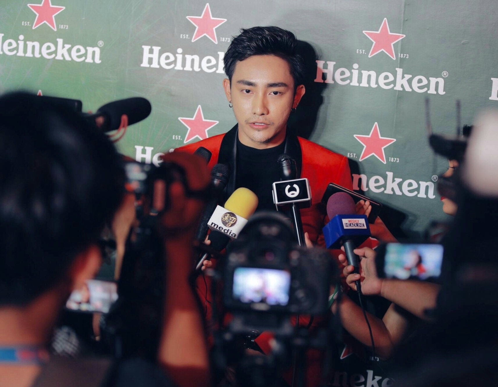 Tyron Bejay(သာကူးဖာခေါင်း) is a Burmese actor and model.